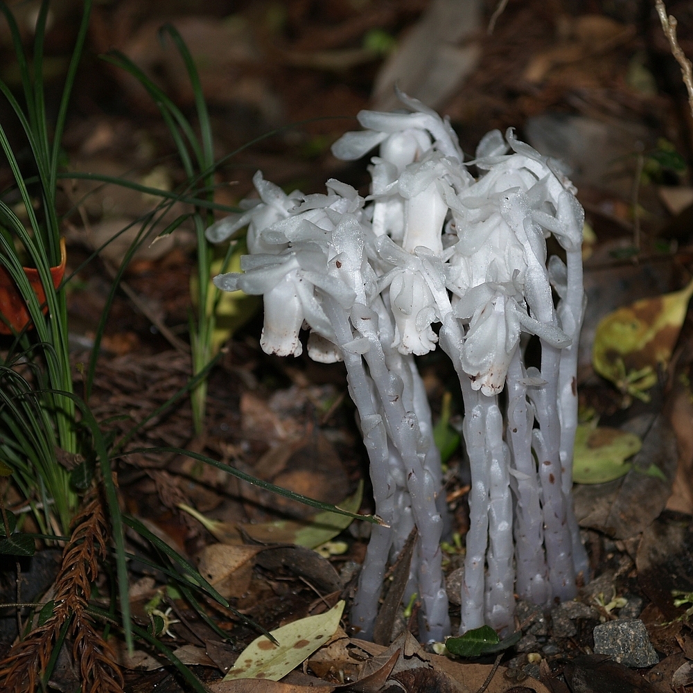 ギンリョウソウ Monotropastrum humile A kind of myco-heterotroph. Location 兵庫県加西市篠山市今田町蛙の宮神社境内 Other photos; Copyright OpenCage